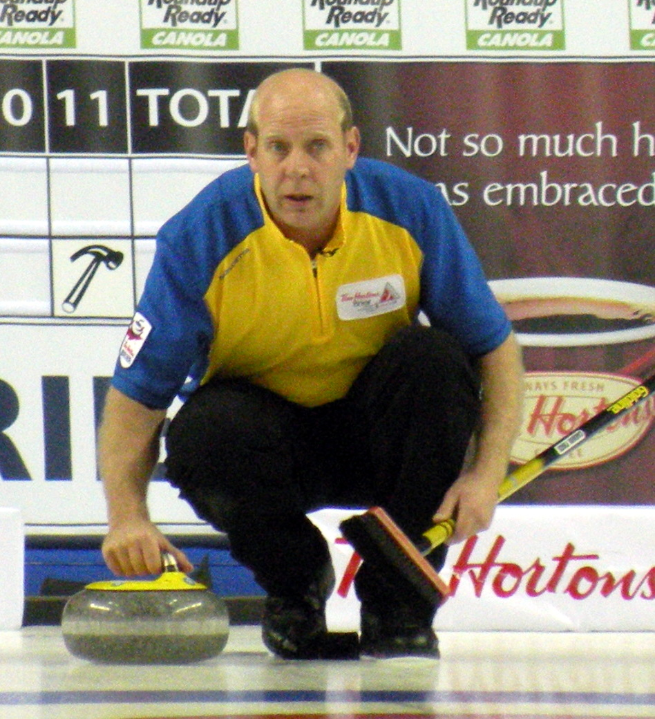 Alberta skip Kevin Martin during round robin play at the Tim Hortons Brier, March 12, 2009